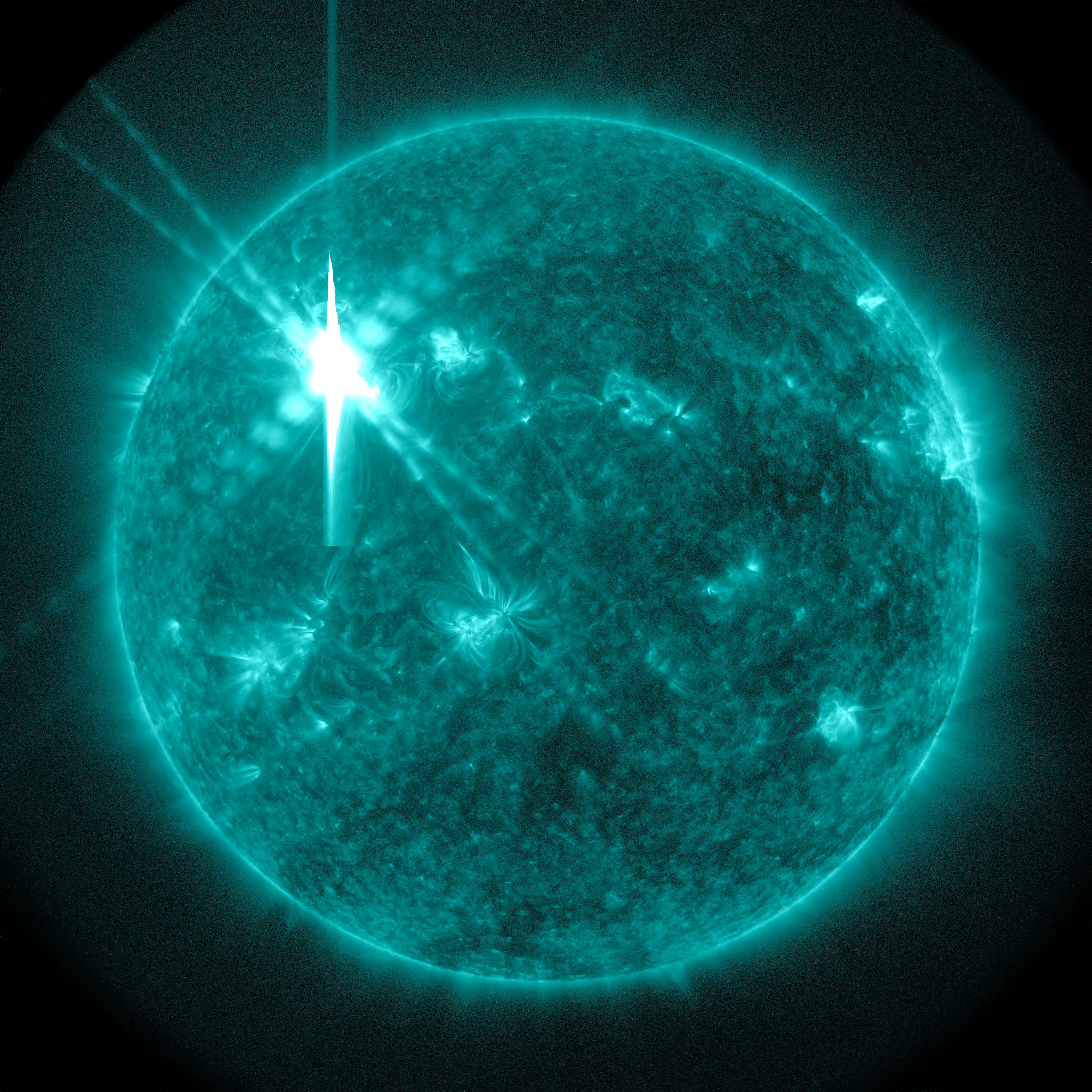 The powerful March 7, 2012 solar flare, which earned a classification of X5.4 based on the peak intensity of its X-rays, is the strongest eruption so far observed by Fermi's LAT. The flare produced such an outpouring of gamma rays — a form of light with even greater energy than X-rays — that the Sun briefly became the brightest object in the gamma-ray sky. See this NASA video for more information about X5.4 and the process behind solar flares producing gamma rays. This is a full disk image of the flare in 131 angstrom extreme ultraviolet light.